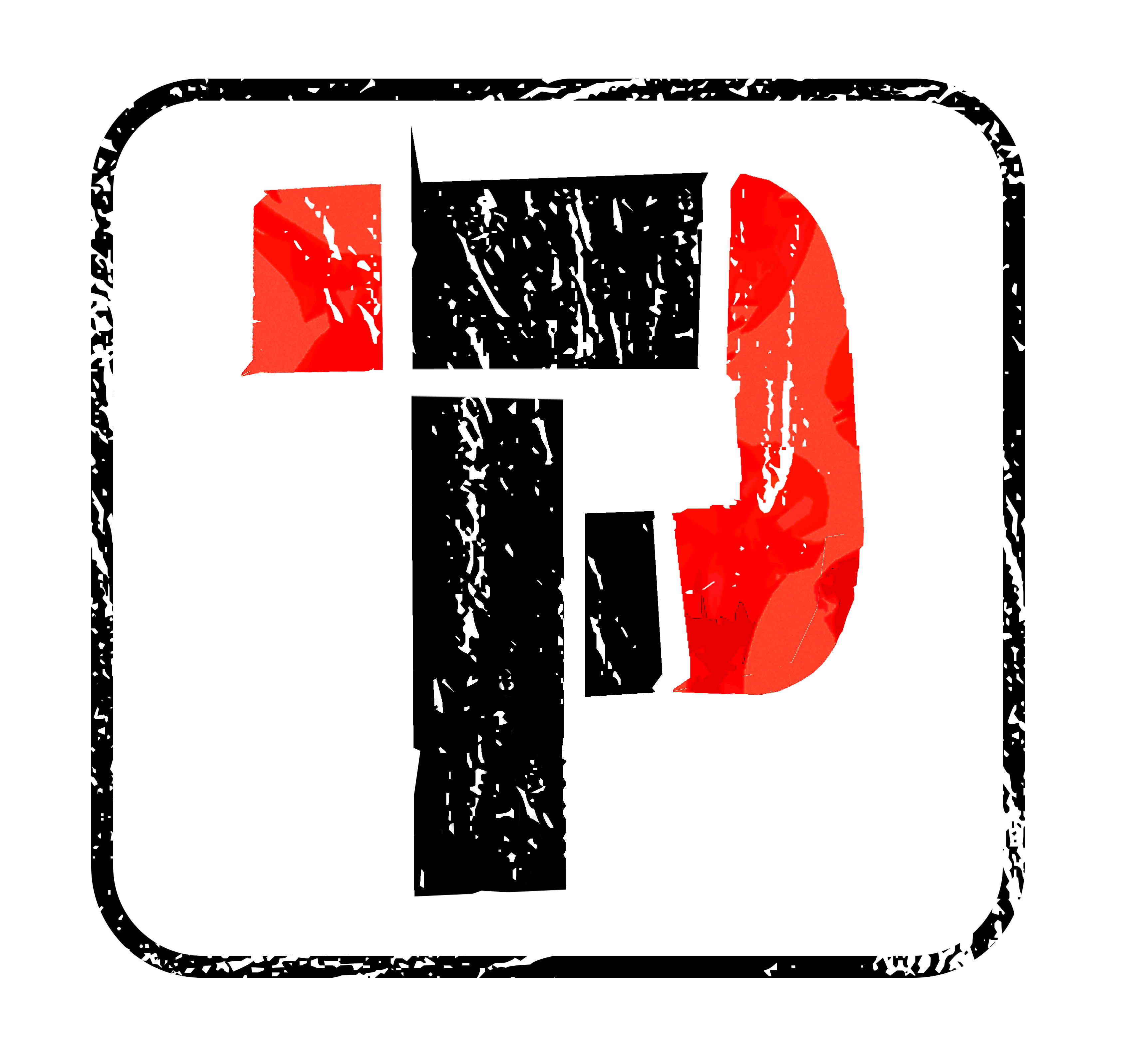 Flame Tree Press colophon for fiction imprint of Flame Tree Publishing Ltd (white). This file is made available under the Creative Commons CC0 1.0 Universal Public Domain Dedication. The person who associated a work with this deed has dedicated the work to the public domain by waiving all of his or her rights to the work worldwide under copyright law, including all related and neighboring rights, to the extent allowed by law. You can copy, modify, distribute and perform the work, even for commercial purposes, all without asking permission.